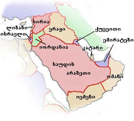 Politische Asien Karte